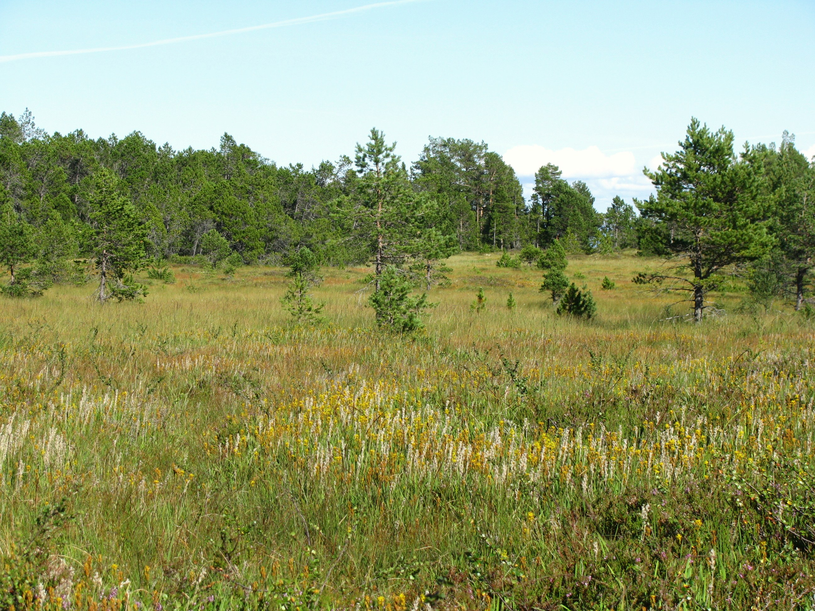 A boreal pine bog with flowers. Bymarka, Trondheim, Norway, 350 m above sea level. Such bogs are one of the worlds largest stores of carbon, and both drainage and warmer summers will lead to the release of CO2 to the atmosphere.